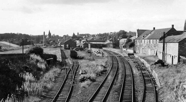 Brechin Station and Yard. View westward, towards buffer-stops; ex-Caledonian terminus of branch from Bridge of Dun, also from Forfar via Careston and from Edzell. Services from Edzell had ceased on 27/9/38, those Forfar and from Bridge of Dun on 4/8/52 and the station was closed to passengers, but the lines from Careston survived until 17/3/58 and from Edzell until 7/9/64, but local freight continued to Brechin until 4/5/81. Since then the Heritage Caledonian Steam Railway (Brechin) has reopened the line to Bridge of Dun.